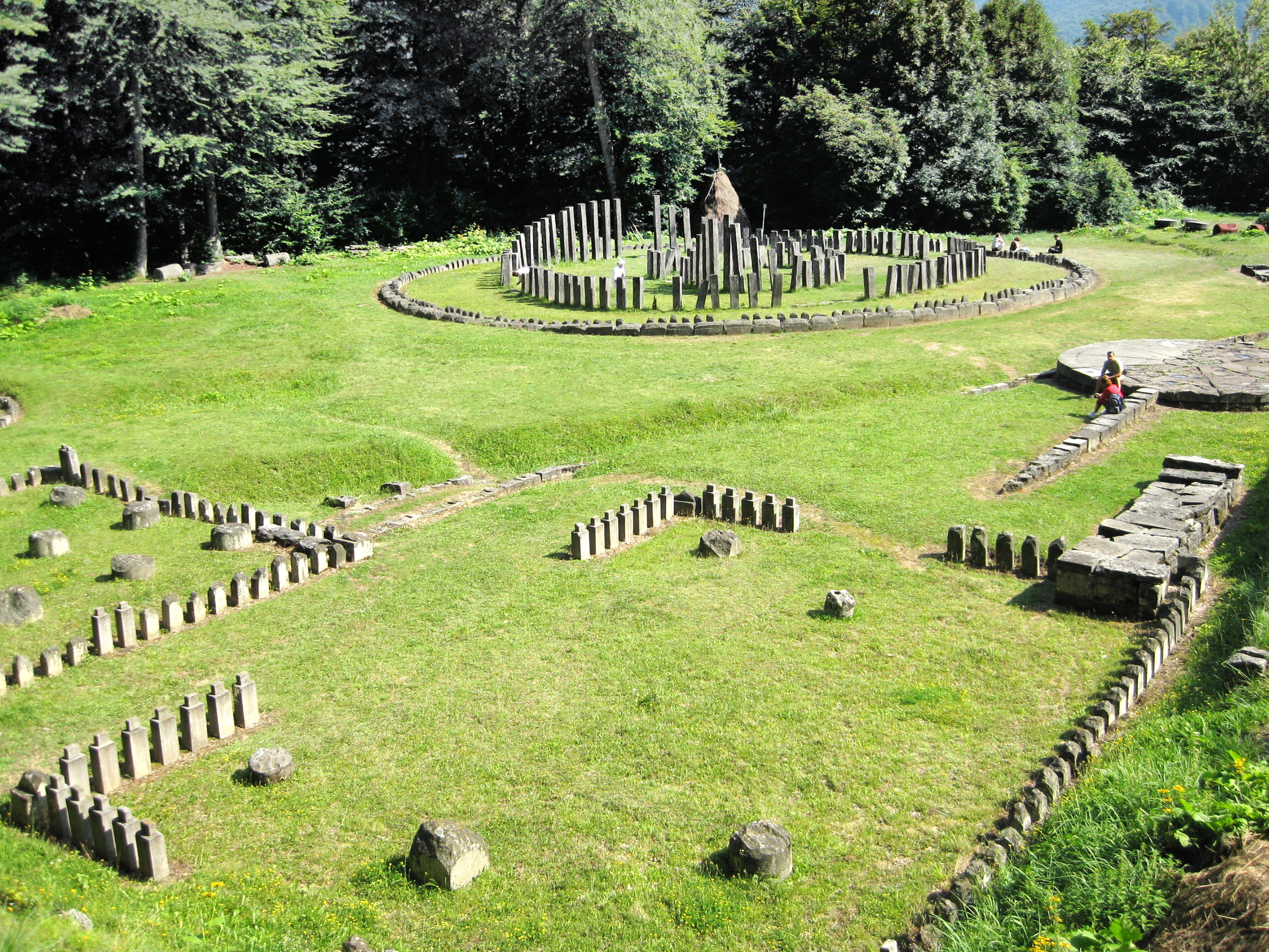 The sanctuaries at Sarmizegetusa Regia, the capital of ancient Dacia (modern Romania)